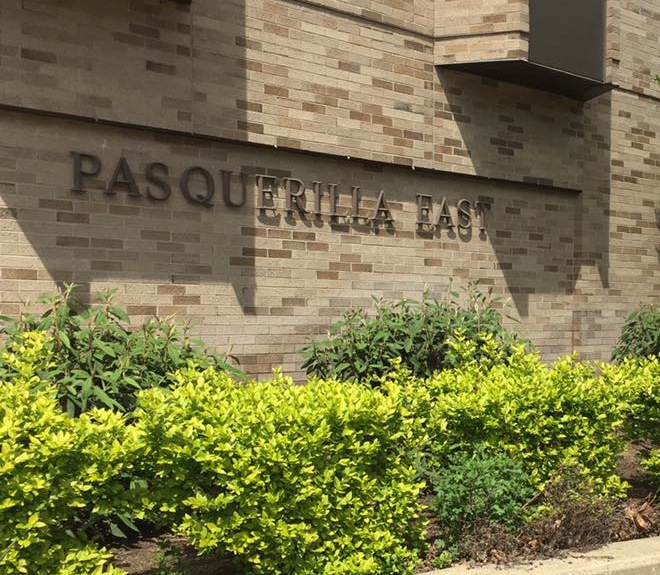 Residence hall at University of Notre Dame